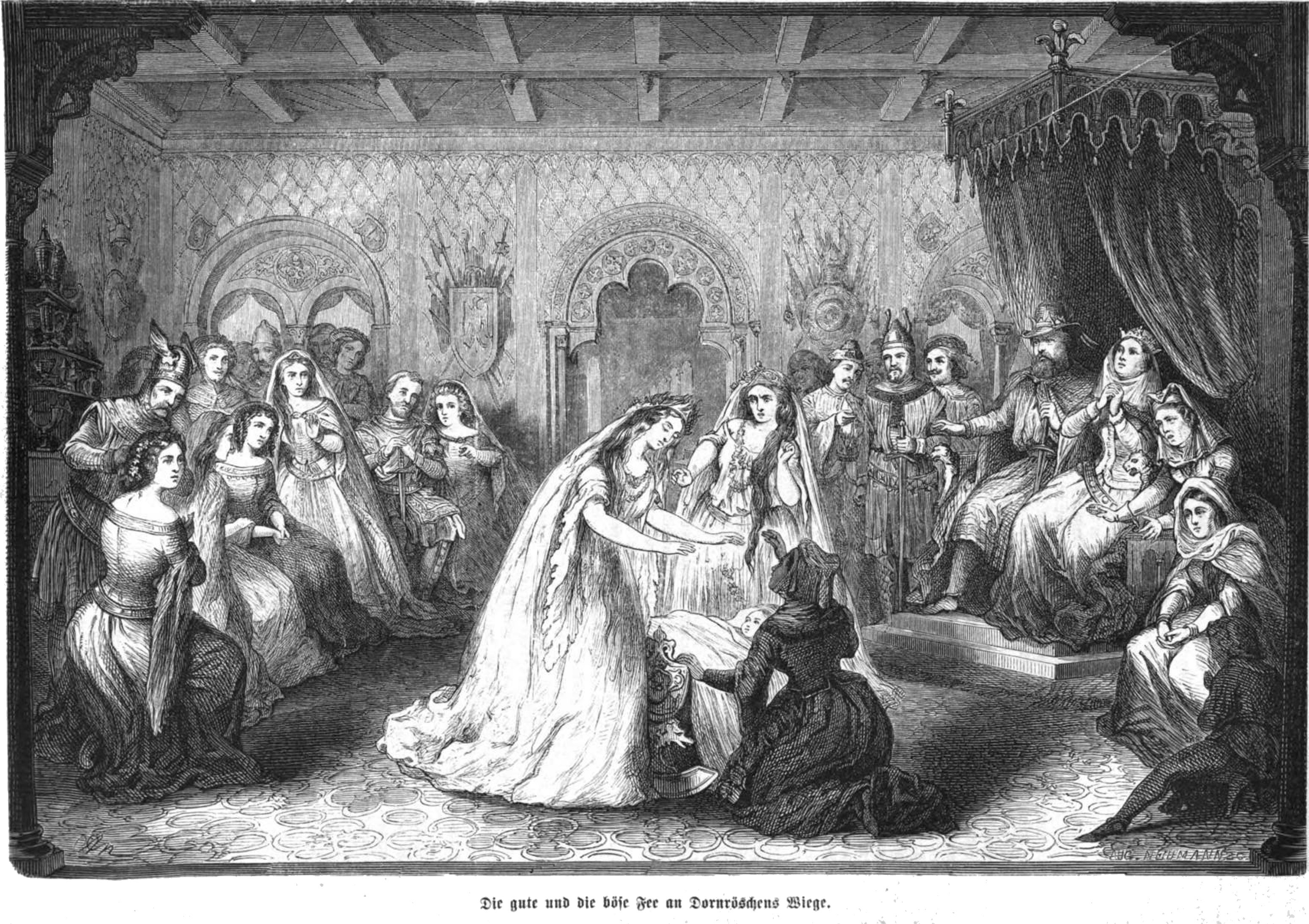 caption: "Die gute und die böse Fee an Dornröschens Wiege."